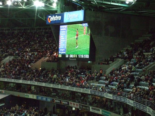 AFL GAme